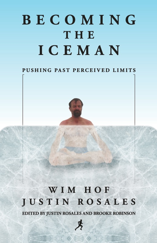 Cover of the book Becoming the Iceman, written by Wim Hof and Justin Rosales.